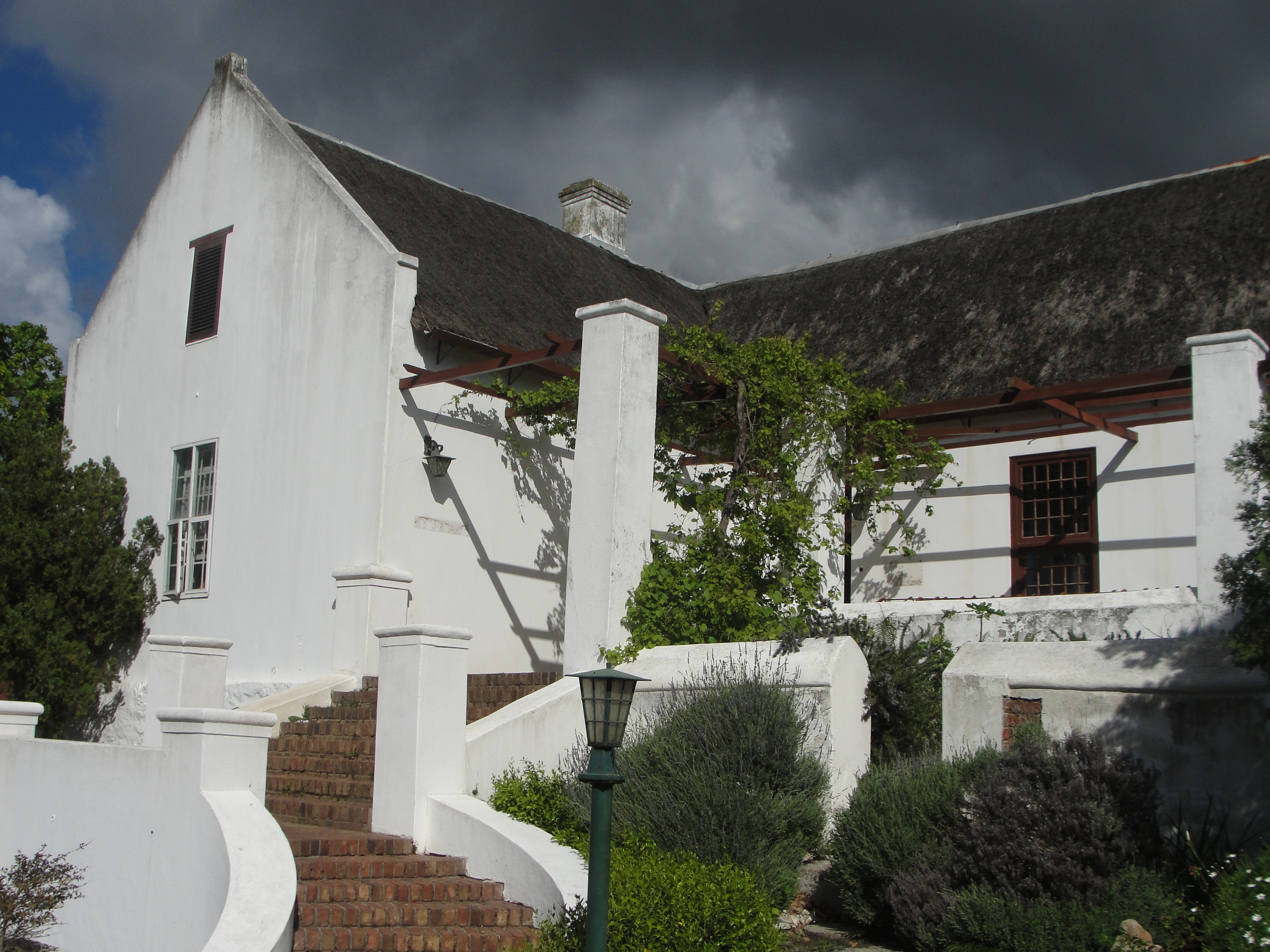 Mostert's Mill Miller's Homestead This media shows a South African Protected Site with SAHRA file reference 9/2/111/0064/003.